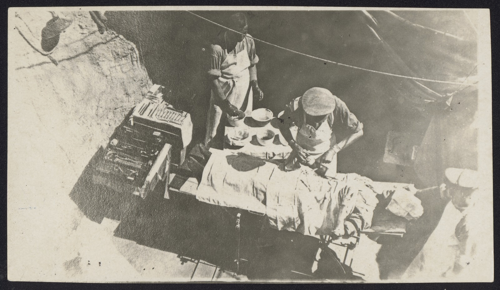 Victor Rupert Laidlaw (1893-1983), enlisted into the service on 18th August 1914. His diaries held in the Australian Manuscripts Collection were written on route to Alexandria with the 2nd Field Ambulance on S.S. Wiltshire; in Mena Camp at Cairo; on Lemnos Island and Dardanelles; at Cape Hellas and Anzac Cove, Gallipoli, and in France.